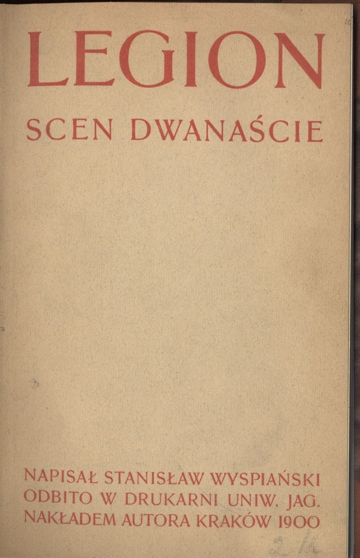 drama